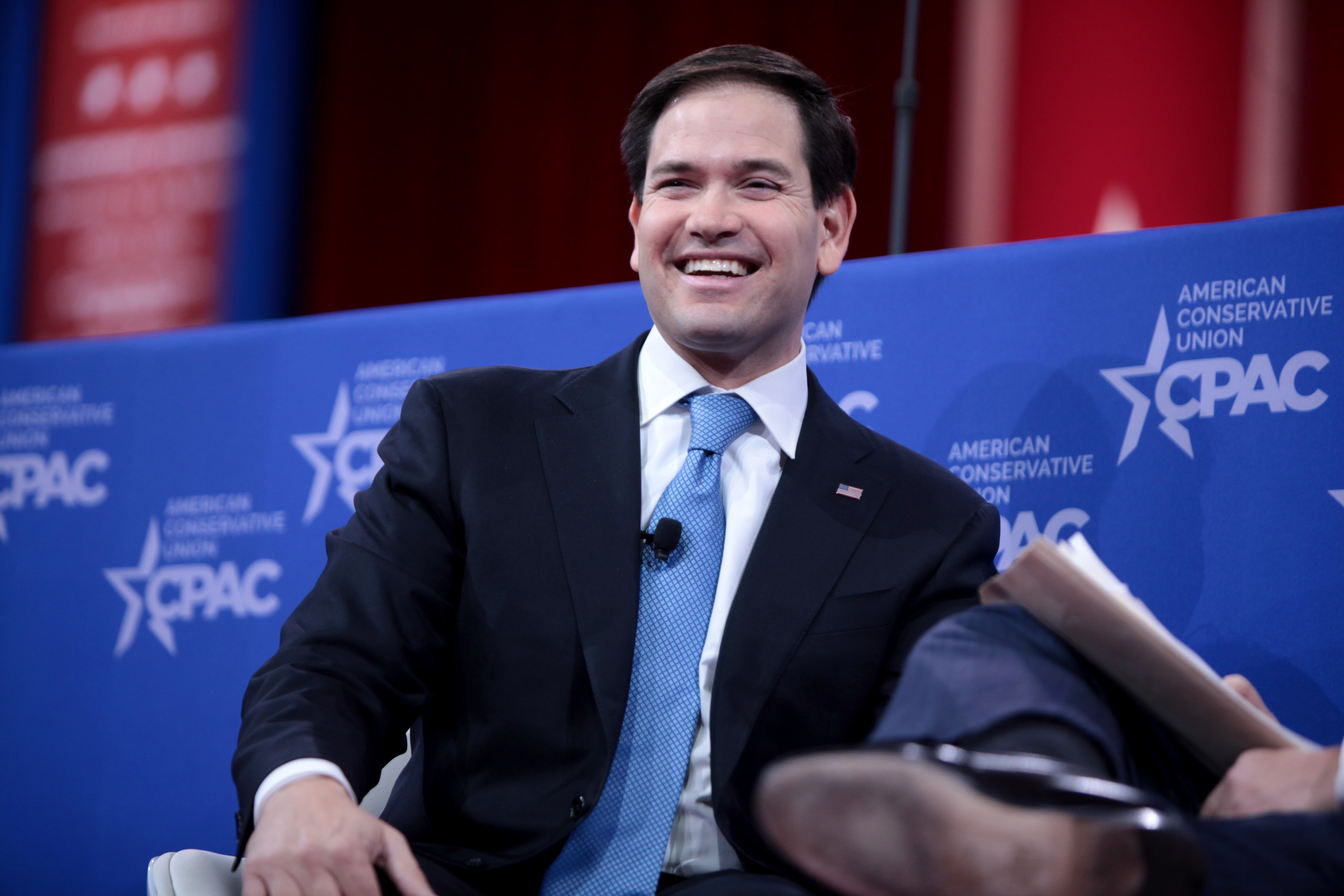 Marco Rubio speaking at CPAC 2015 in Washington, DC.